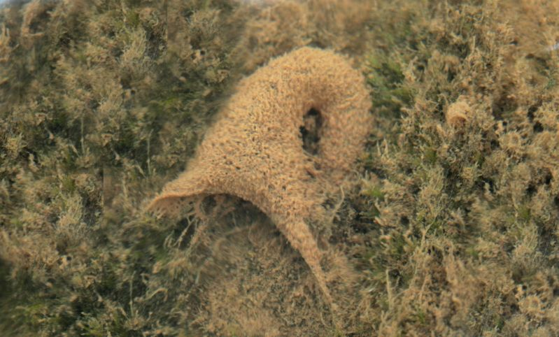 Protective net made by Trichoptera sp. larvae. Photo taken in the Sabine River, Texas, USA